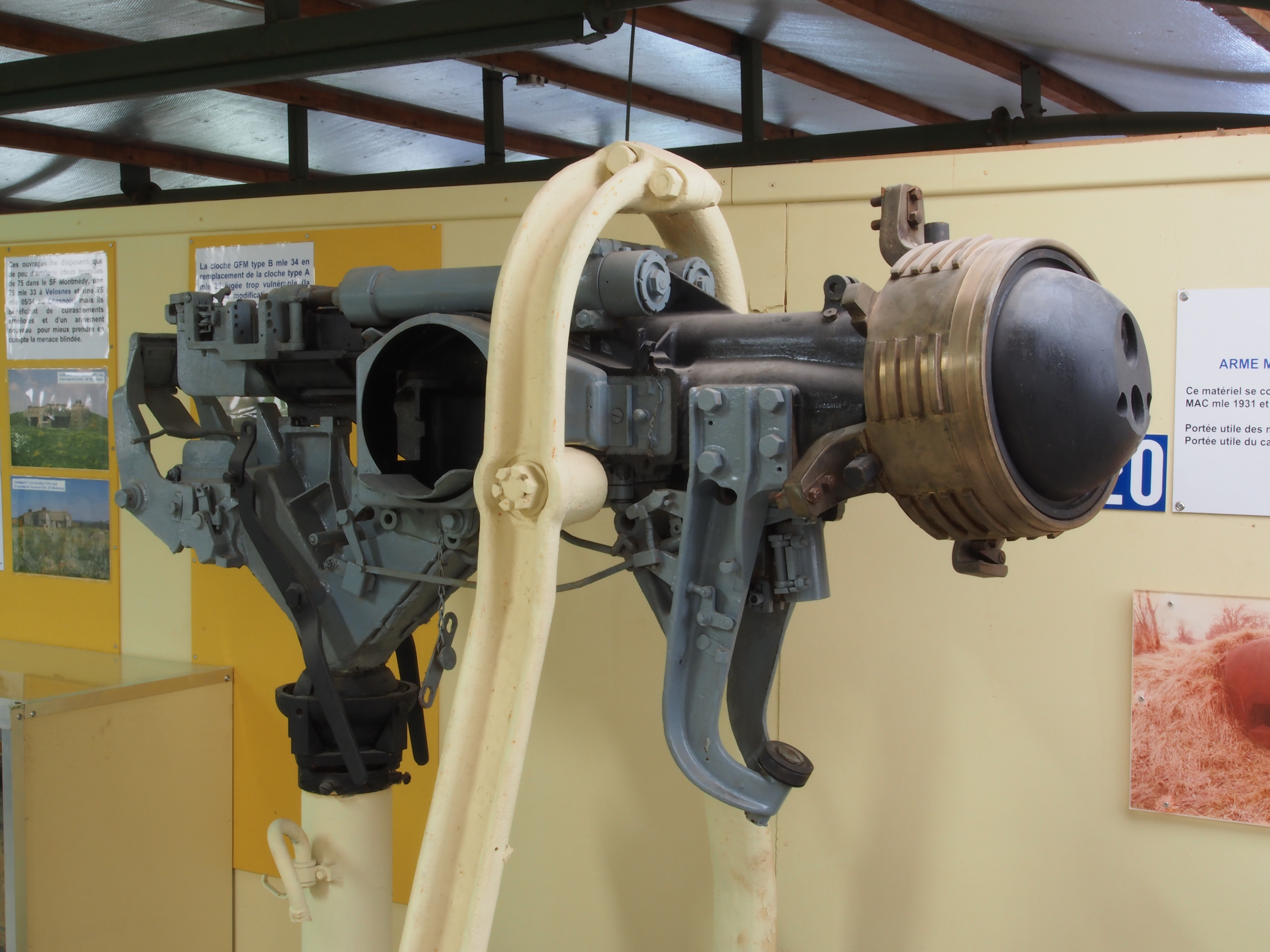 Fort de Fermont and its museum - Ouvrage Fermont - Cloche AM mle 34 (25 AC cannon and twin machine gun)